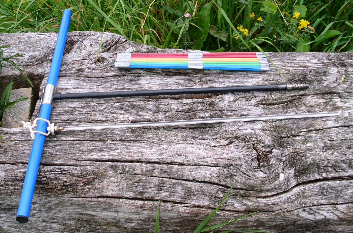 Increment borer (Haglofs).